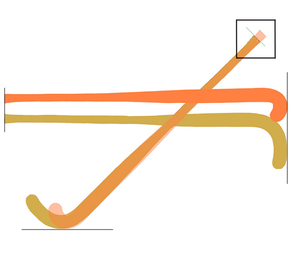 Comparison of heel bend from 1930's hockey stick with a modern one.